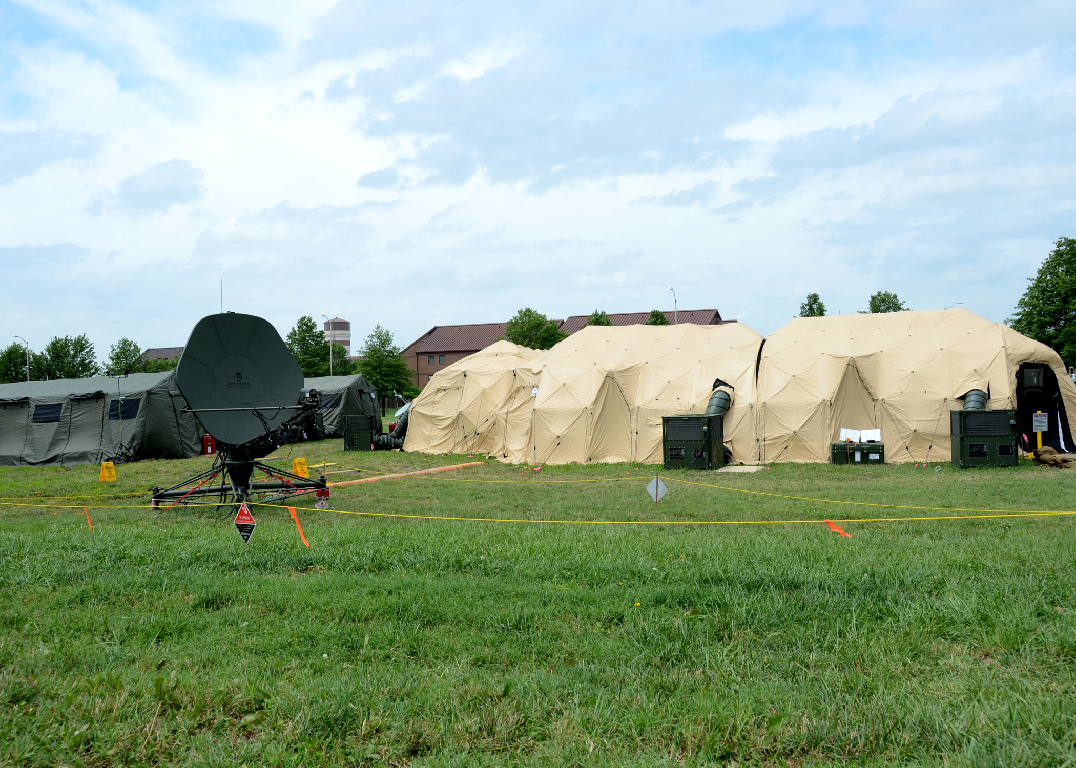 The 239th Combat Communications Squadron, Missouri Air National Guard, “deployed” from Jefferson Barracks, St. Louis, to Whiteman Air Force Base, Mo., for an exercise during the 131st Bomb Wing annual training week, June 16-20, 2014. They set up tents and employed their mobile communications equipment for a "real-world" experience for all involved in the exercise.